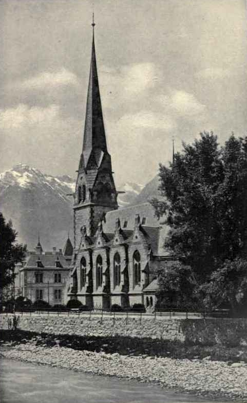 Foto of the protestant church meran, South Tyrol